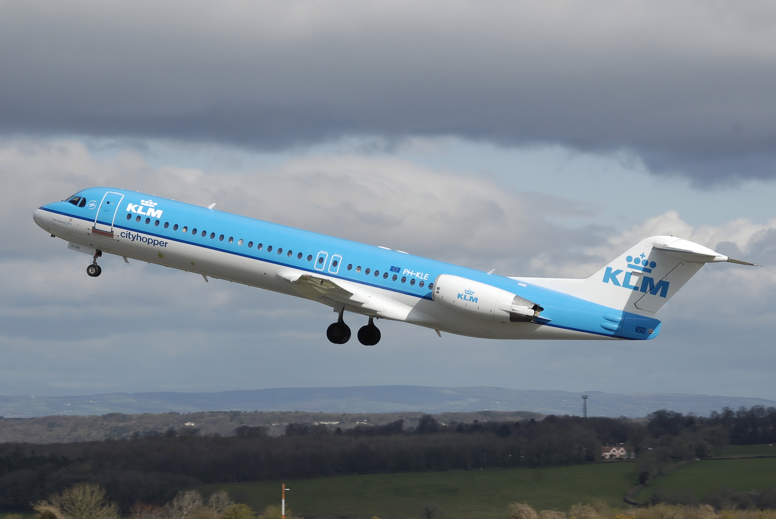 KLM Cityhopper Fokker 100 (PH-KLE) taking off from Bristol International Airport, Bristol, England. Taken by Adrian Pingstone in April 2006 and released to the public domain.